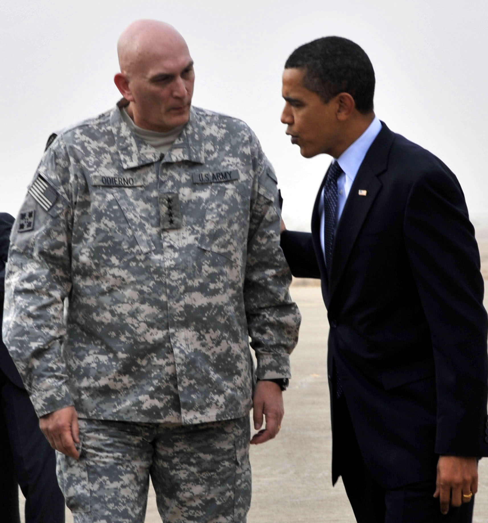 President Barack Obama talks with U.S. Army Gen. Raymond T. Odierno, commanding general of Multinational Force Iraq, just after landing in Air Force One on the flightline on Sather Air Base, Iraq, April 7, 2009.